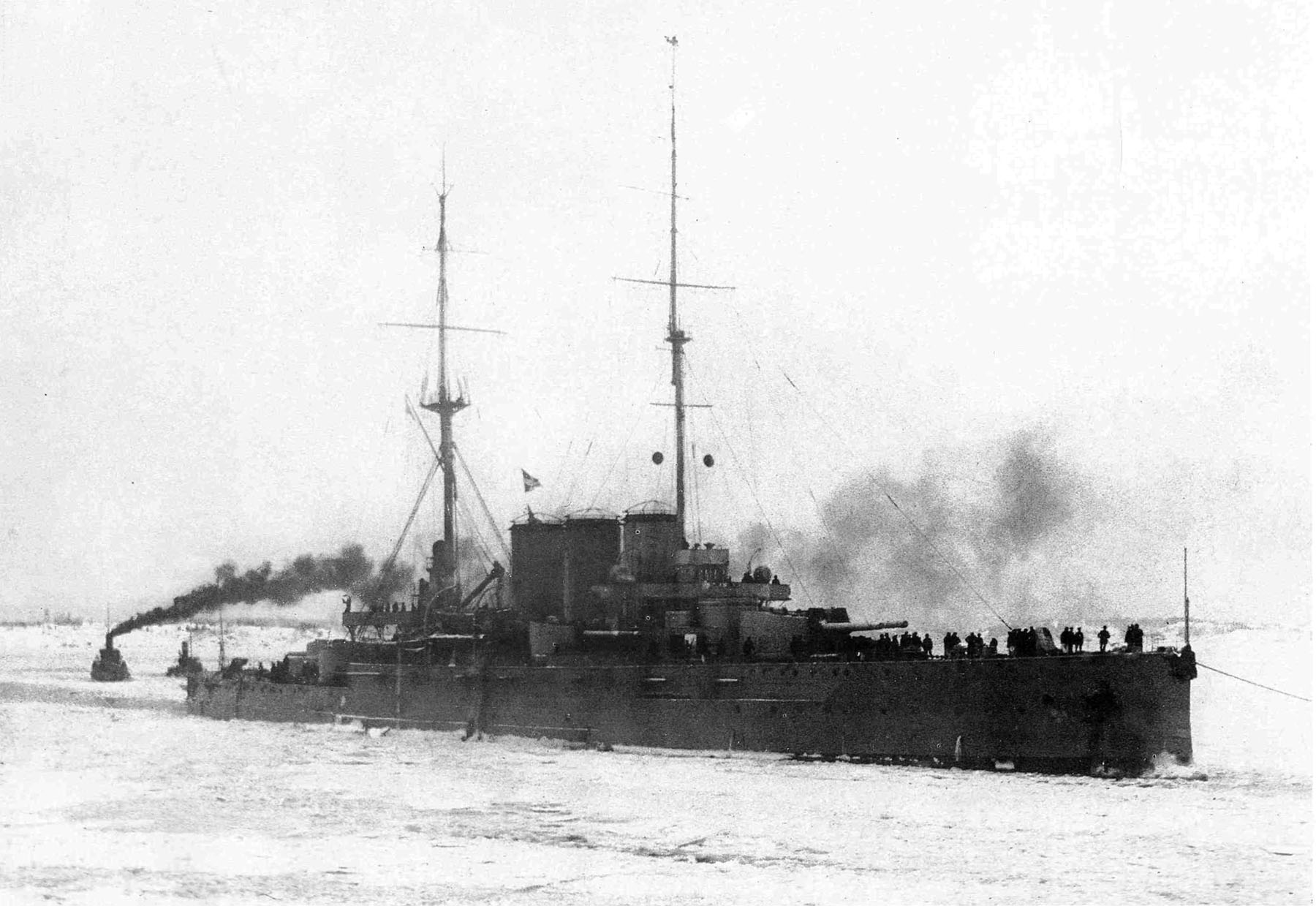 Arimoured cruiser Ryurik.